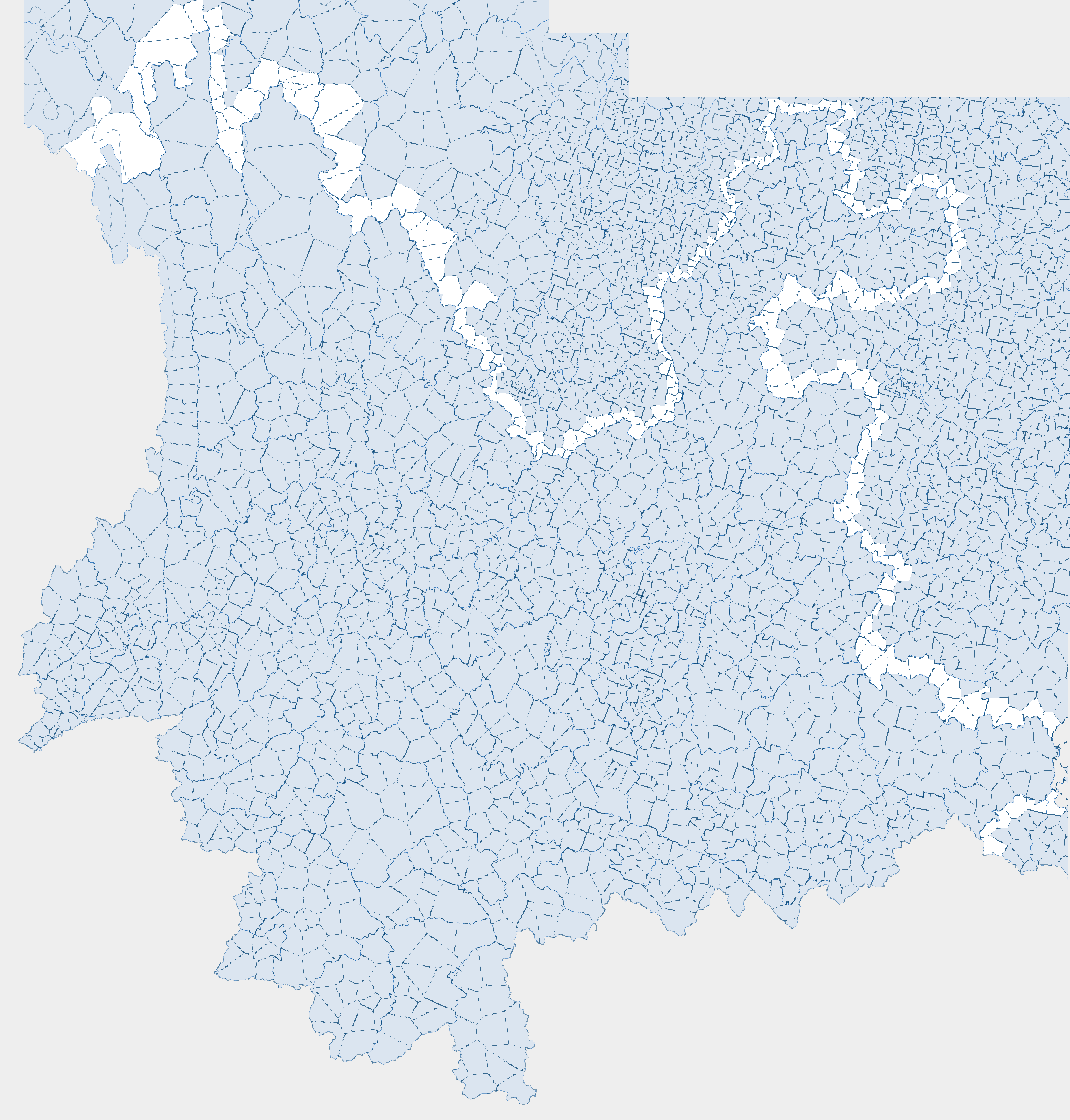 Townsips map of Yunnan